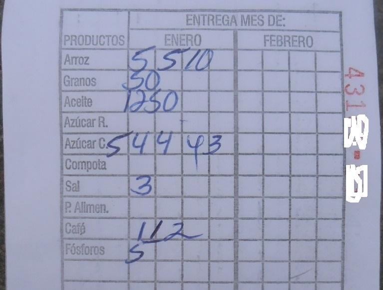 One page of the Libreta de Abastecimiento, for January and February, number and year anonymized.